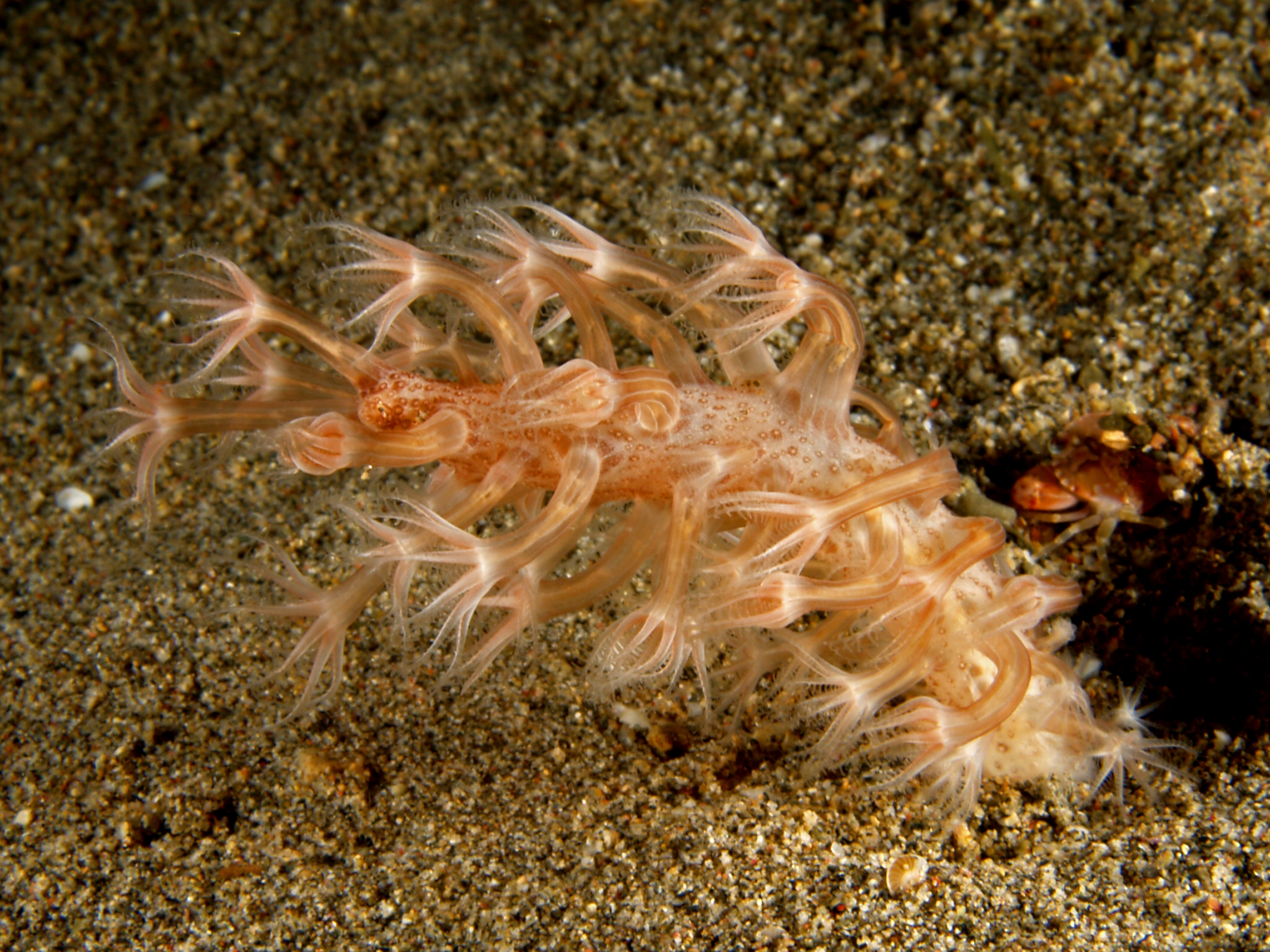 OpenStreetMap(Info) Soft coral sea pen with polyps extended at night to feed on suspended matter in the water column including planktonic organisms.